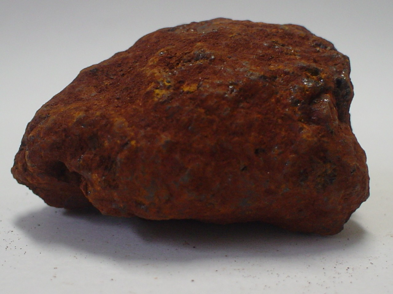 Hematite. (Hematite is a type of iron ore.)